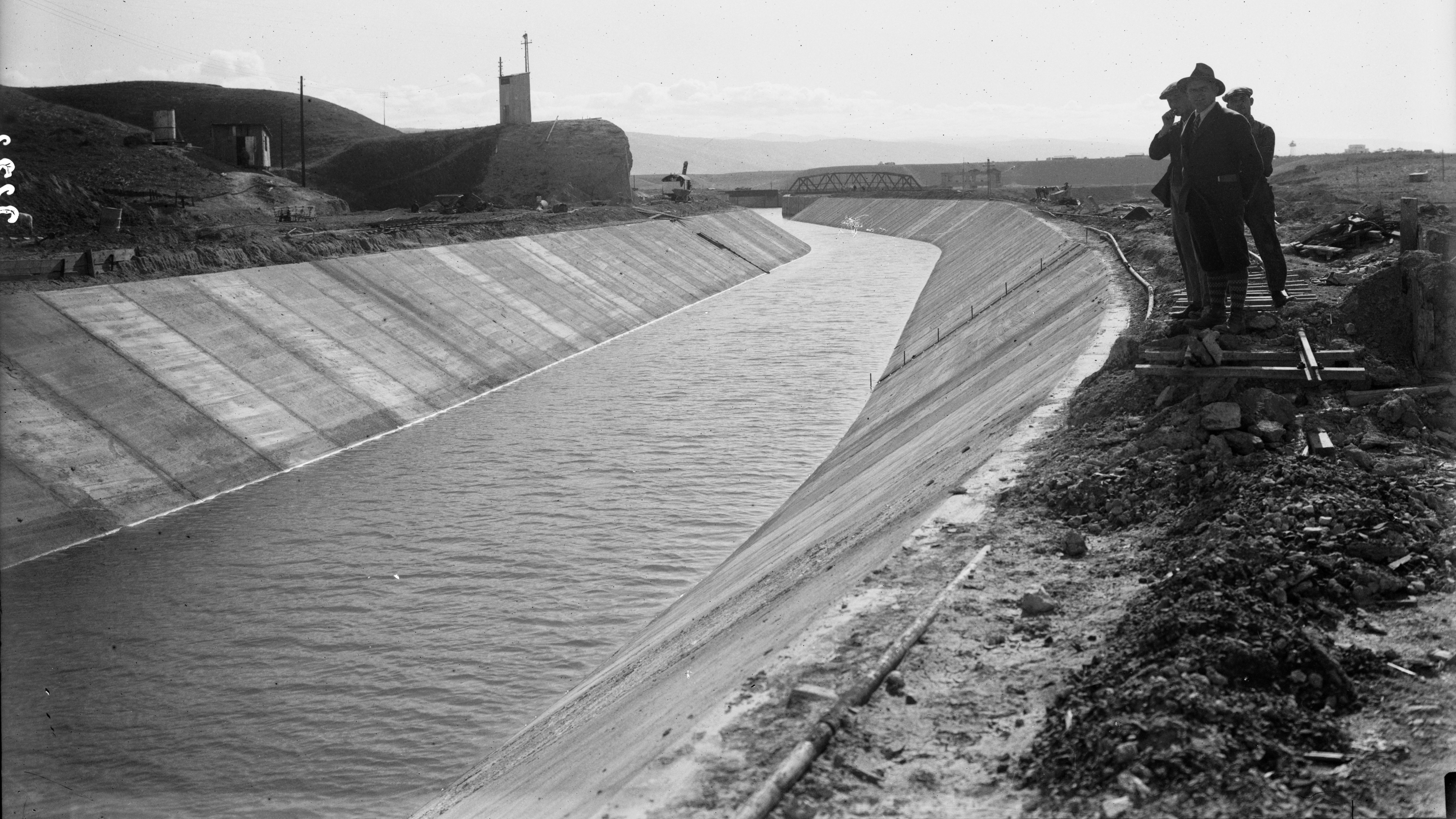 The Palestine Electric Corporation power plant. The P.E.C. Jordan Canal diverting the Jordan water into the lake.